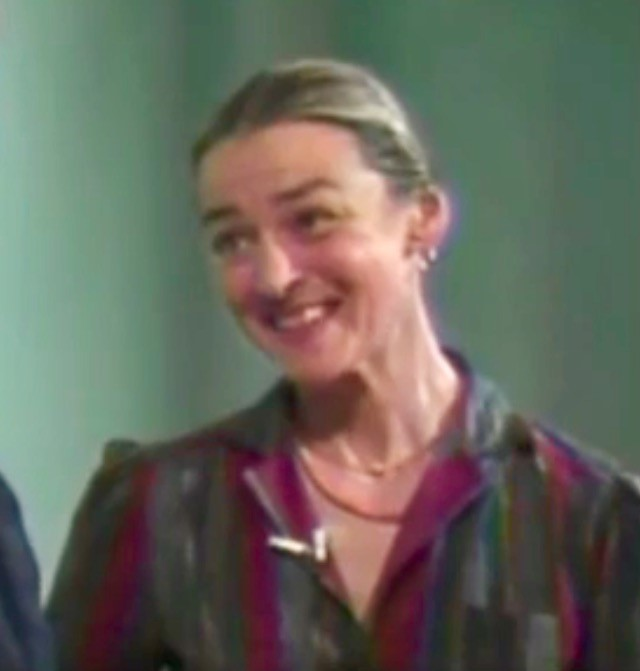 Virginia Doris in 1984